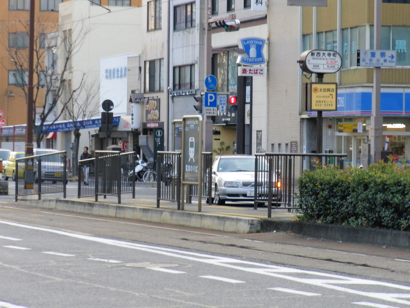 Okayama Electric Tramway Shinsaidaijichōsuji Station.